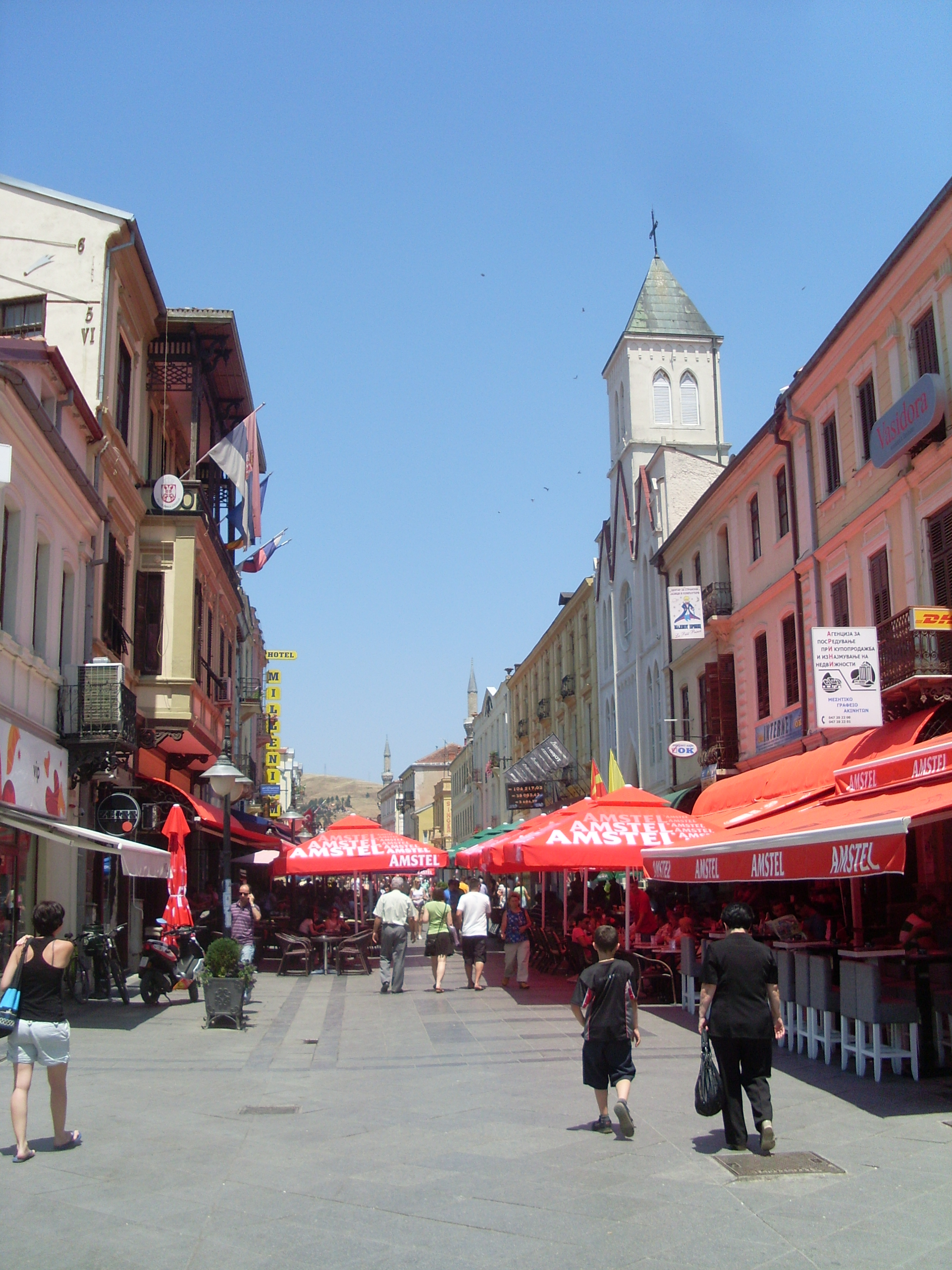 Sirok Sokak, Bitola, Republic of Macedonia.